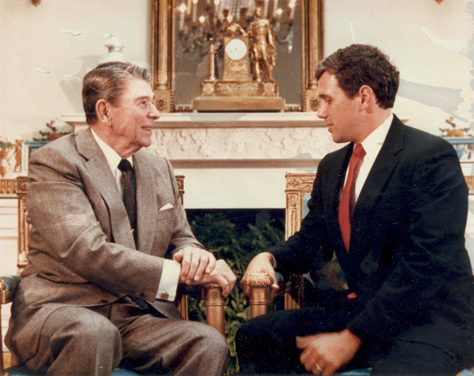 Congressional candidate Mike Pence meets with President Ronald Reagan in the White House in 1988.